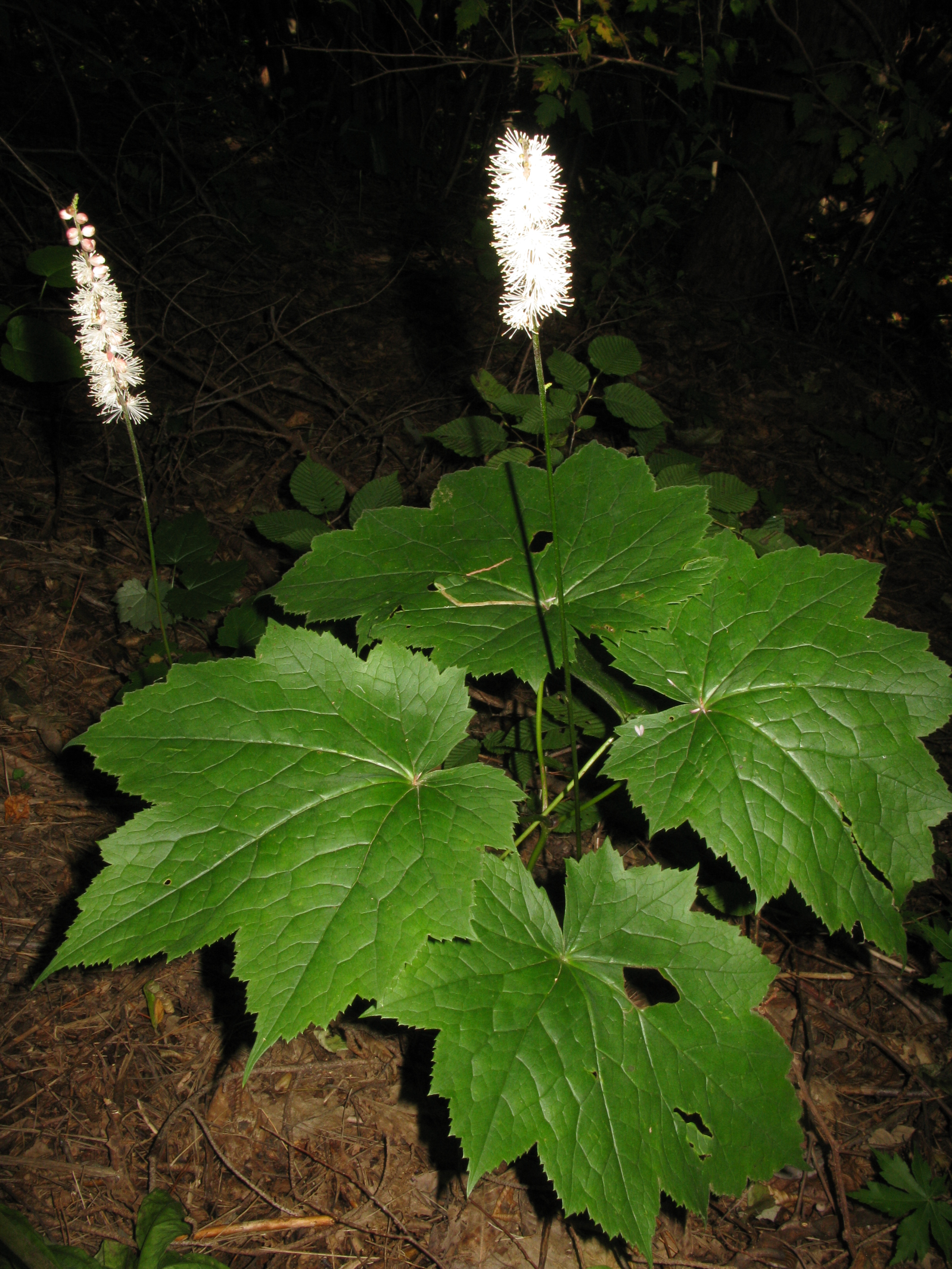 Cimicifuga japonica, Nakadori area, Fukushima pref., Japan